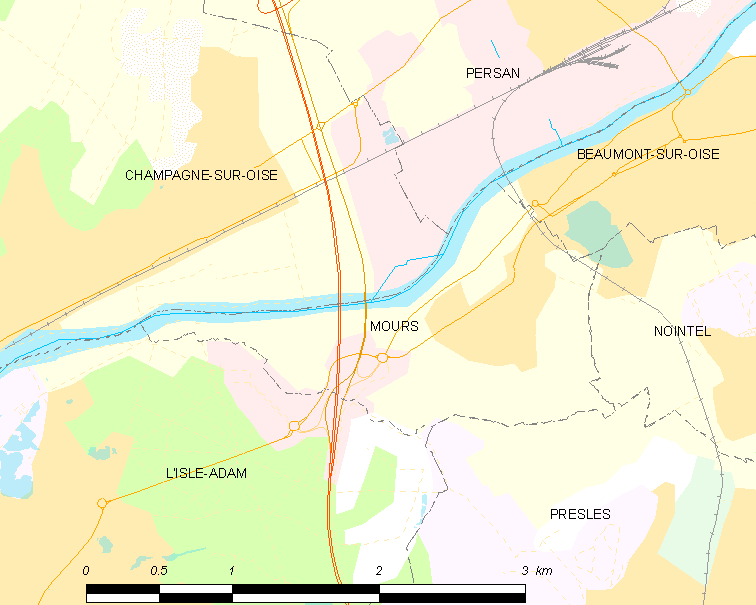 Map of French municipality Mours